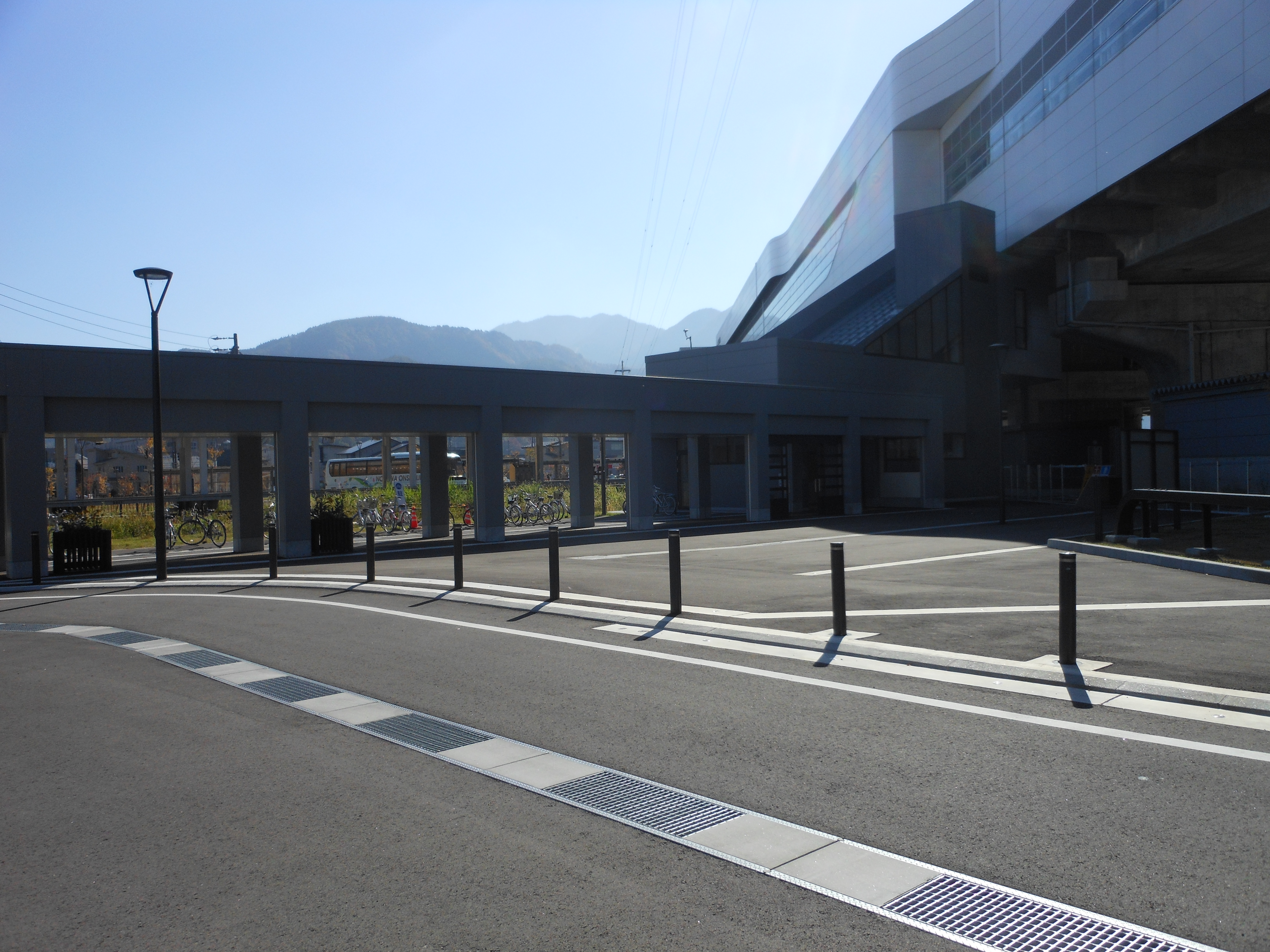 This is the Madarao Entrance of JR Hokuriku Shinkansen and Iiyama Line Iiyama station.